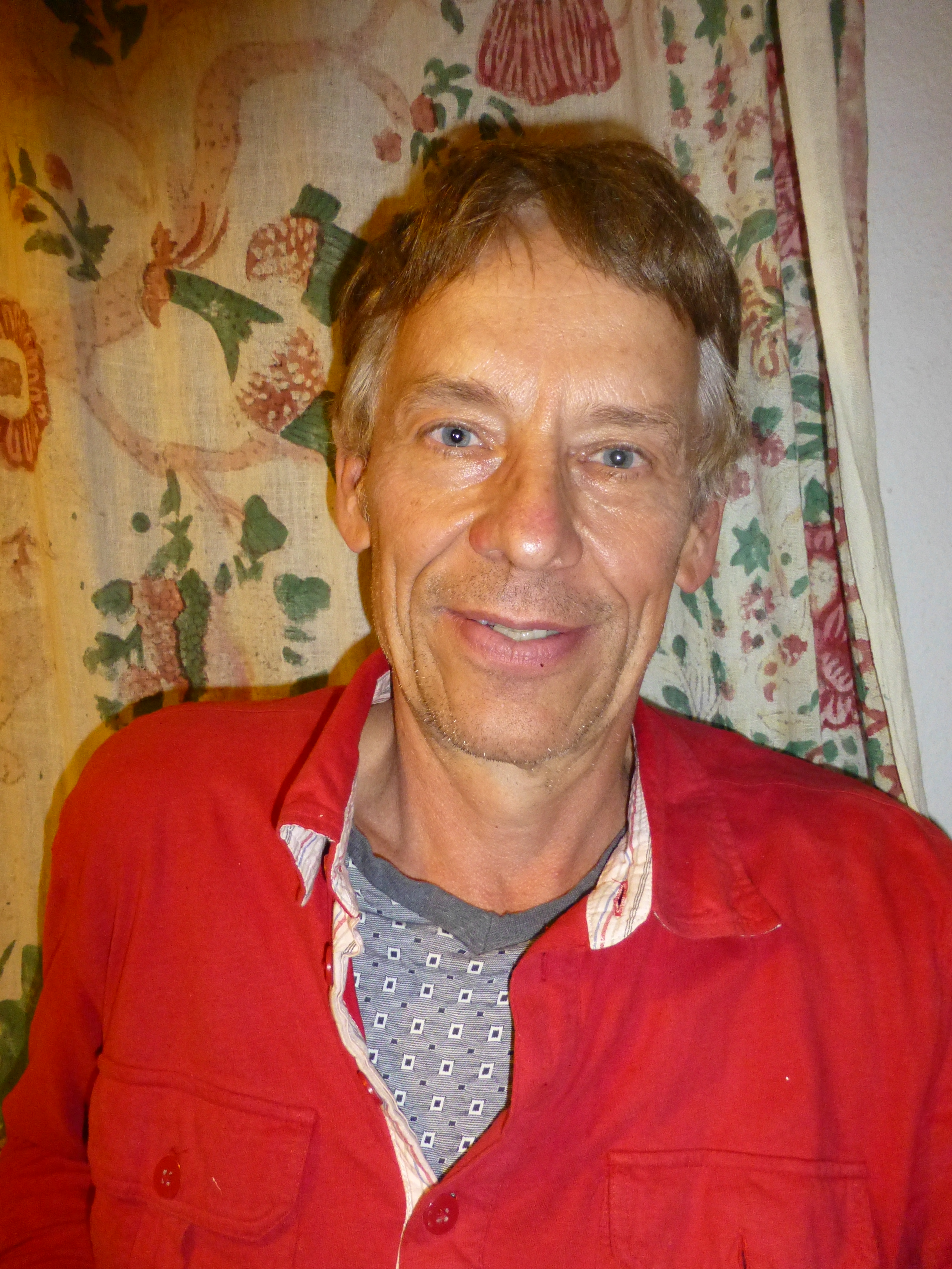 Dieter Rooke as a guest by family Bélisle in La Chaux-de-Fonds